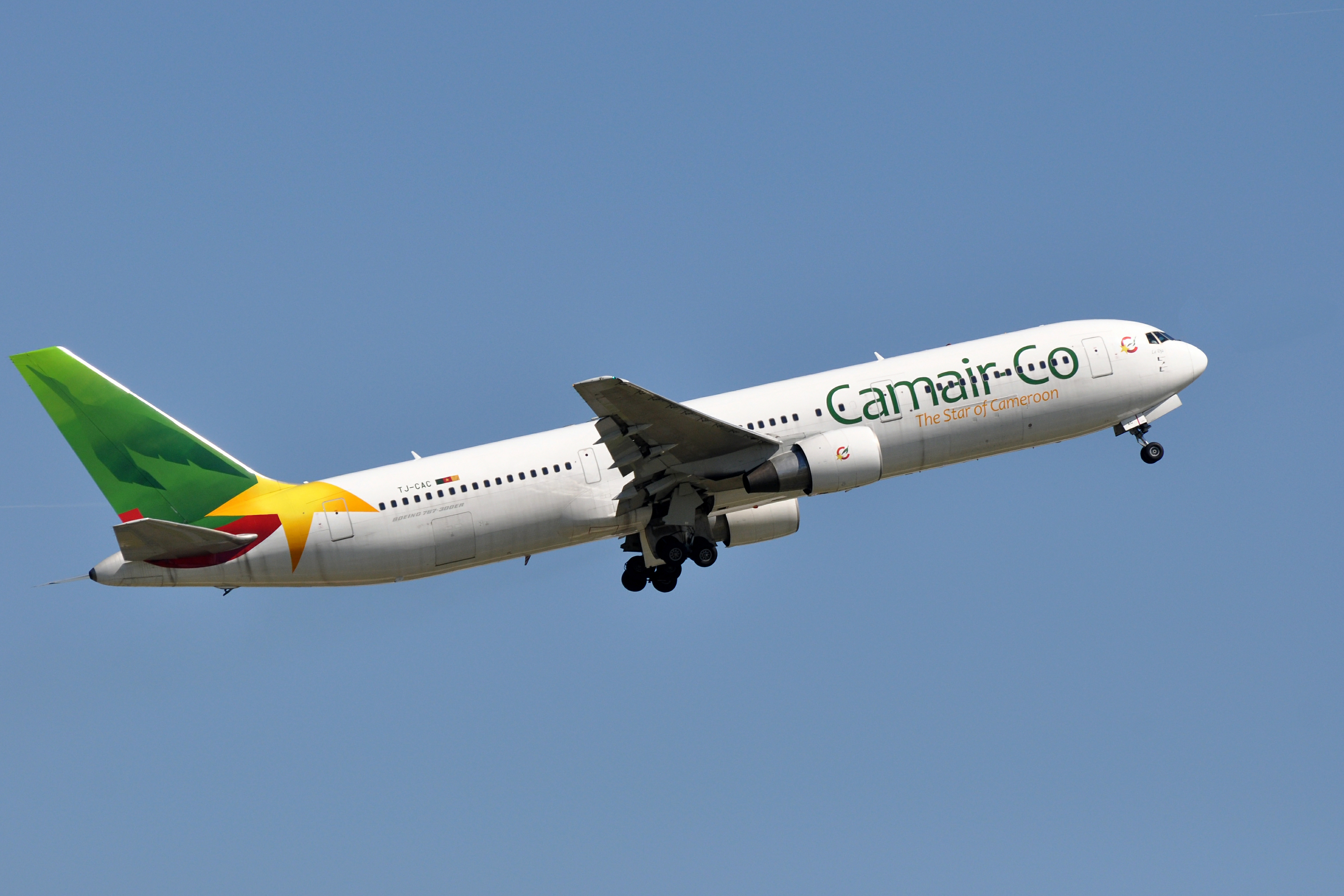 MSN 28138 B767-33A ER CAMAIR CO CDG EX CAMEROUN AIRLINES